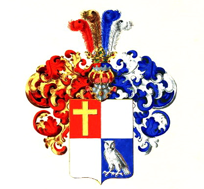 Coat of Arms of family Postels